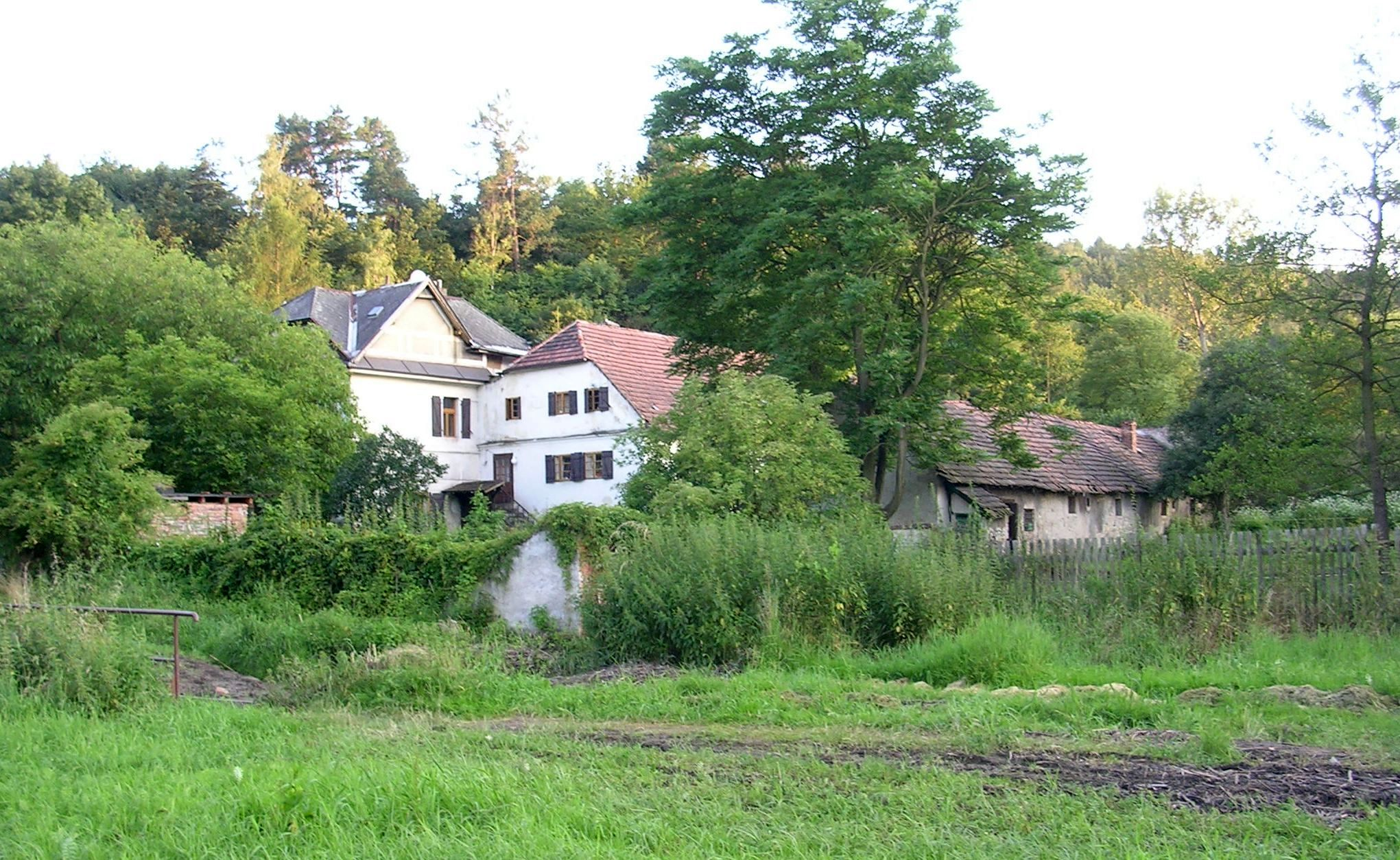 Suchdol, Prague, the Czech Republic.